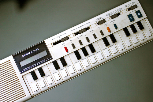 Photograph of a Casio VL-Tone VL-1 taken by Jyoti Mishra